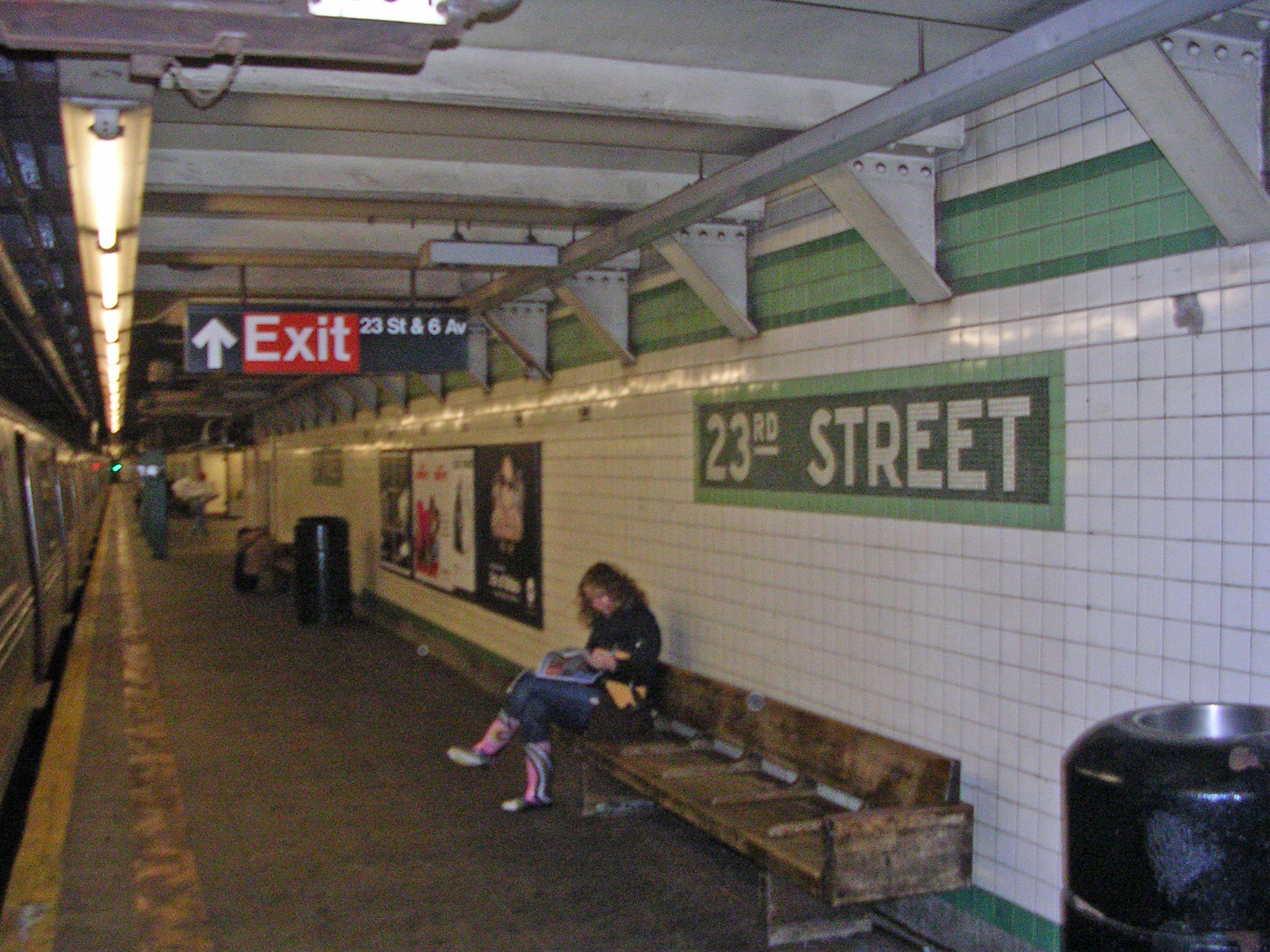 23rd Street (IND Sixth Avenue Line) Station by David Shankbone, January 15, 2007.